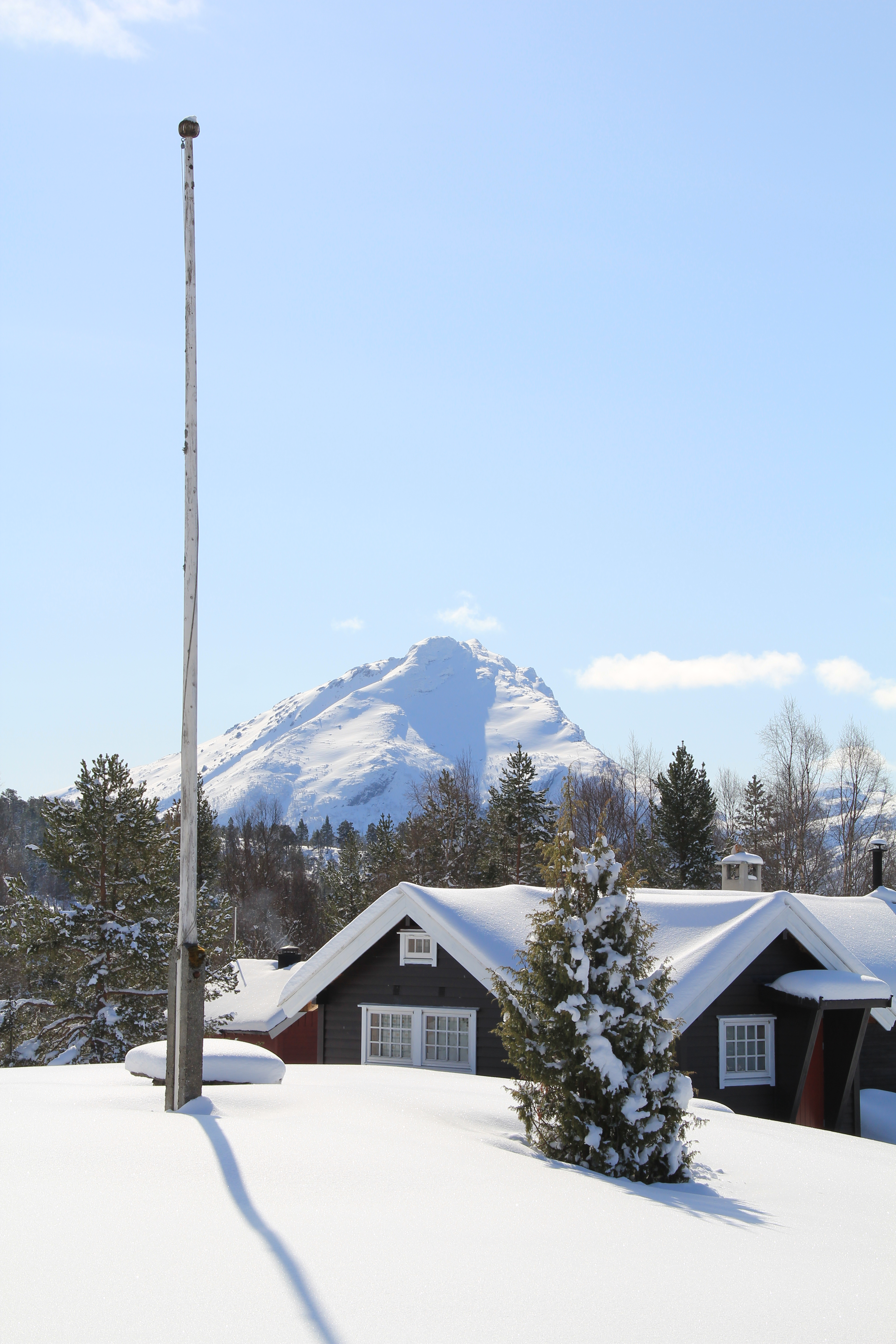 Ryssdalshorn, mountain in Gloppen